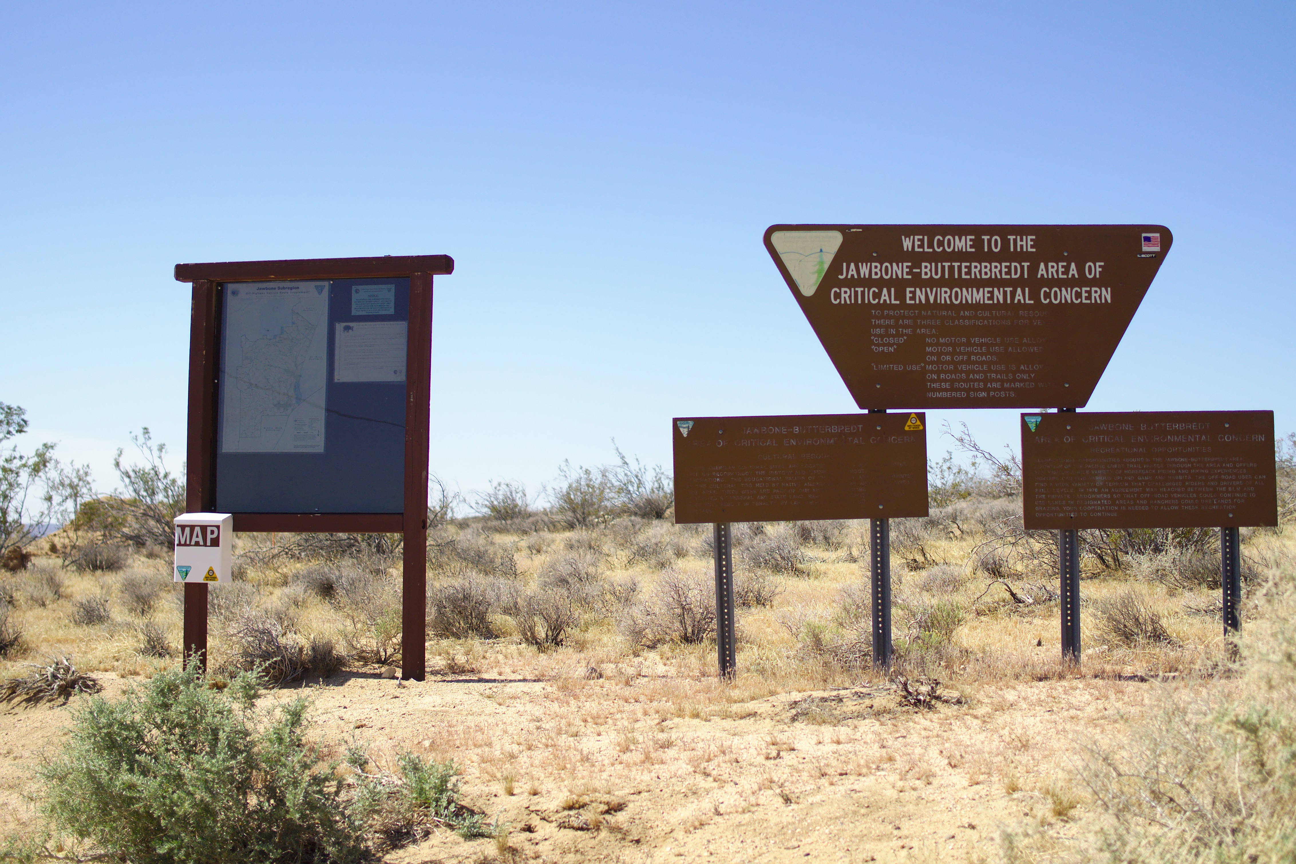 Faded signage for Jawbone-Butterbredt Area of Critical Environmental Concern along California State Route 178.